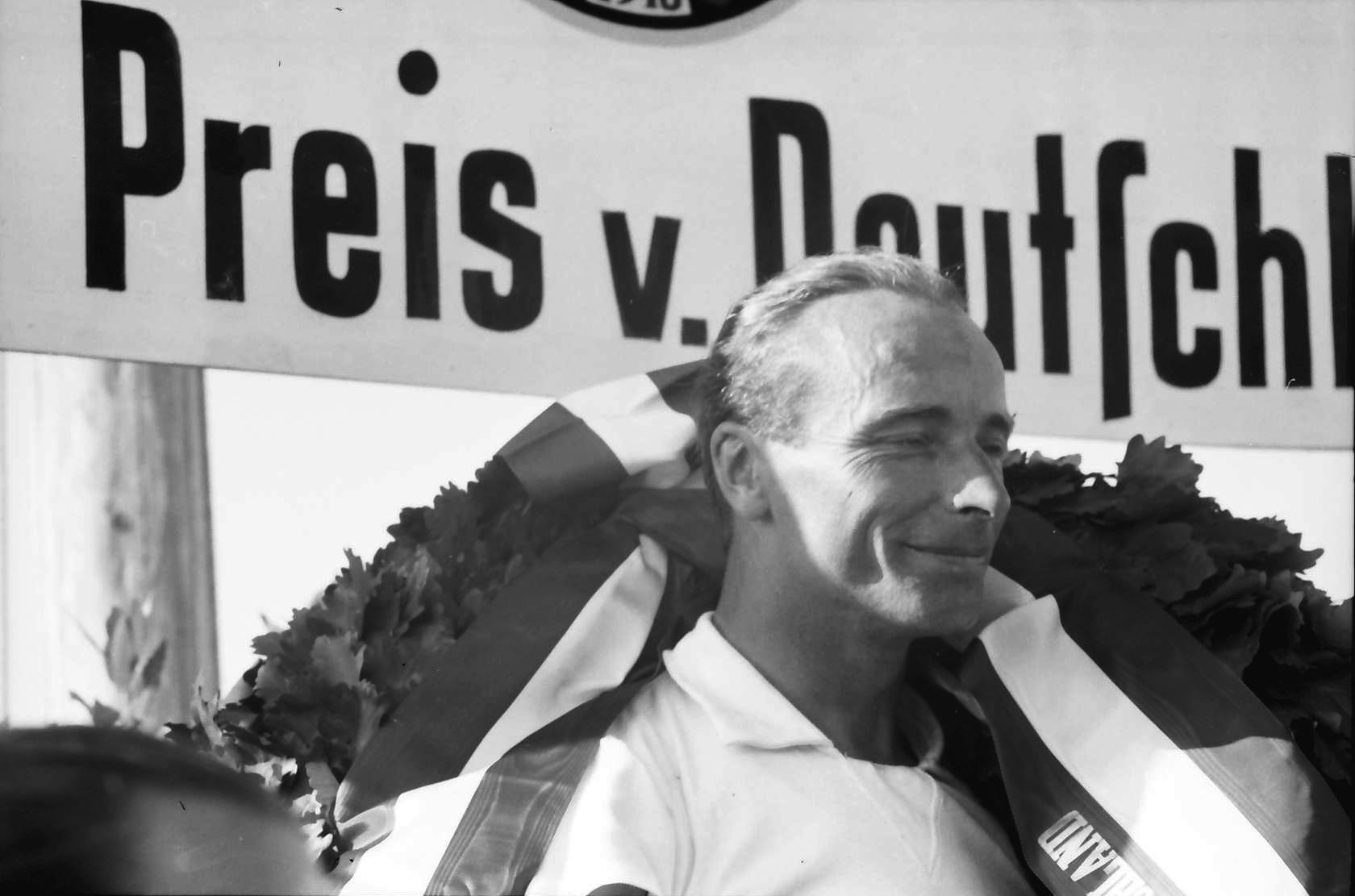 Edgar Barth, winner of the Formula 2 class of the 1957 German Grand Prix, enjoys the adulation of the crowd during the podium ceremony.